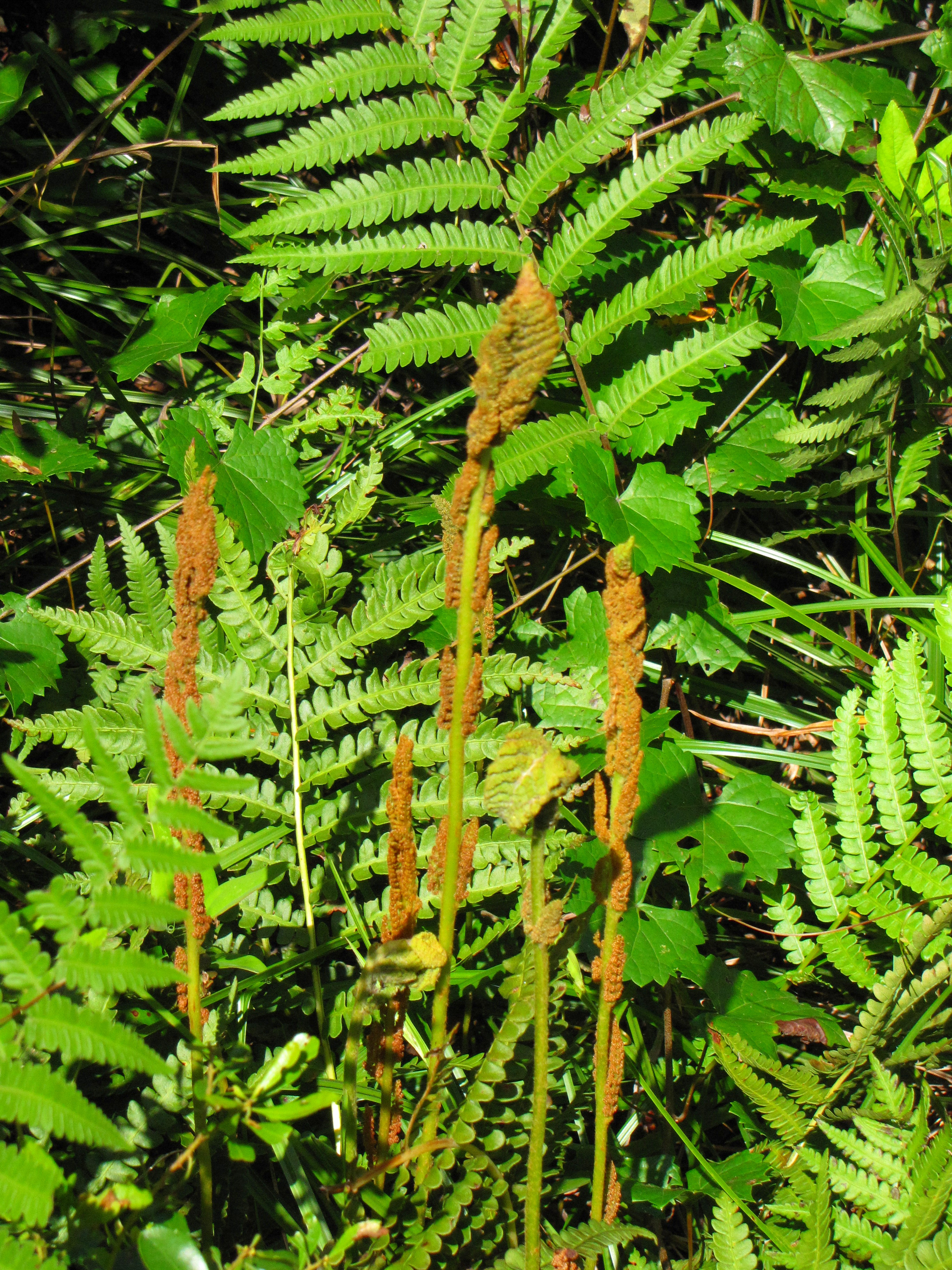 Osmundastrum cinnamomeum. Long Leaf Pine Trail, Florida Scenic Trail, Etoniah State Forest, Putnam County, Florida.